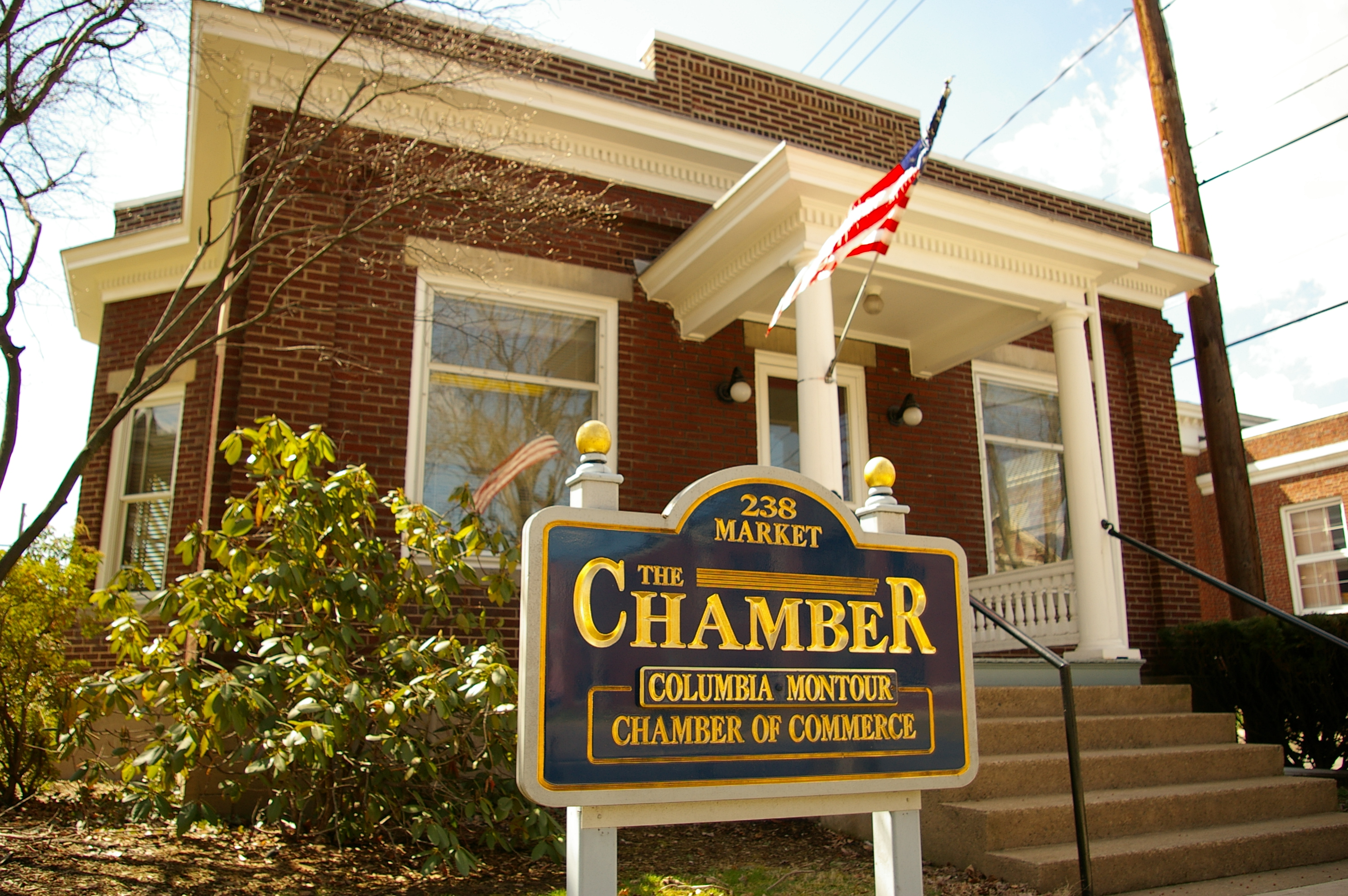 Bloomsburg, PA, Columbia Montour (Counties) Chamber of Commerce